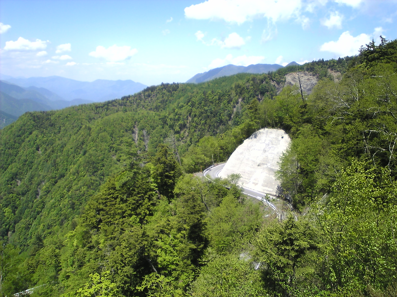 The Ikawa Amahata Forest Road in Hayakawa Town, Yamanashi Prefecture, Japan